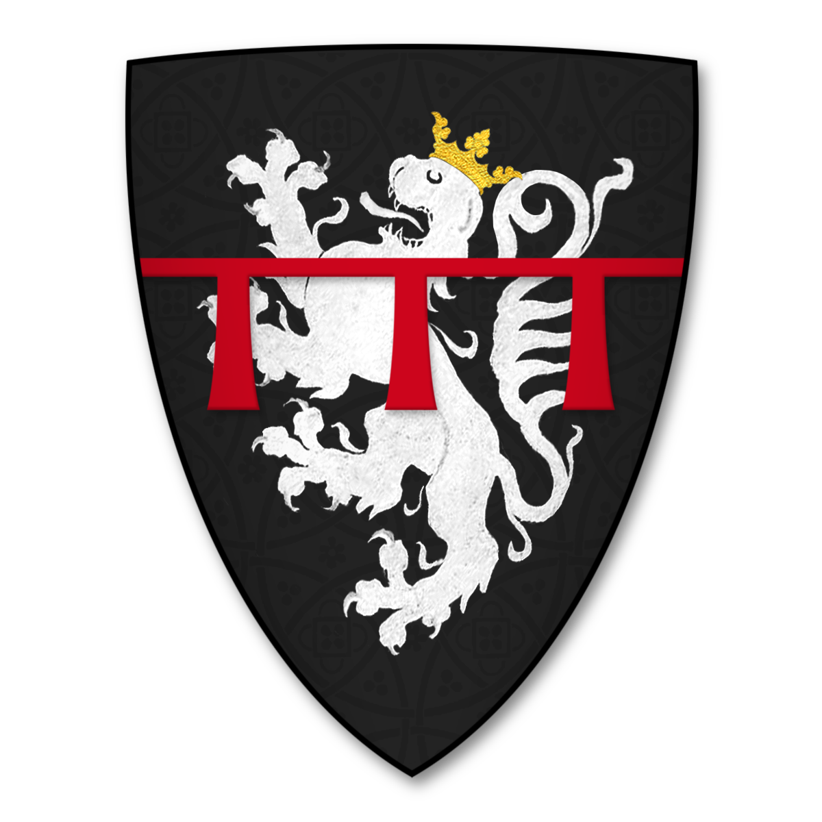 Coat of Arms of Nicholas de Segrave, as blazoned in the Caerlaverock Roll (K-015: "Nicholas de Segrave") "Cil ot la baniere son pere Au label rouge por son frere Johan, ki li ainsnez estoit, E ki entiere la portoit. O un lÿoun de argent en sable Rampant e de or fin couronné" Arms: Sable a lion rampant argent crowned Or, a label gules for difference.